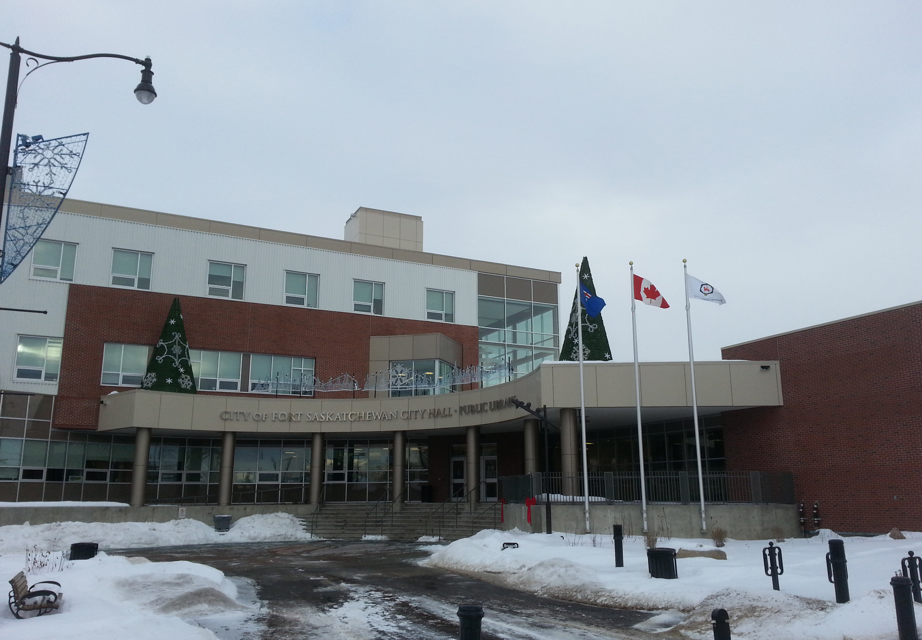 Fort Saskatchewan, Alberta city hall